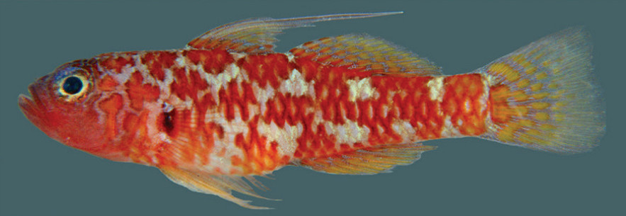 Trimma naudei male 26.7 mm, Comoros